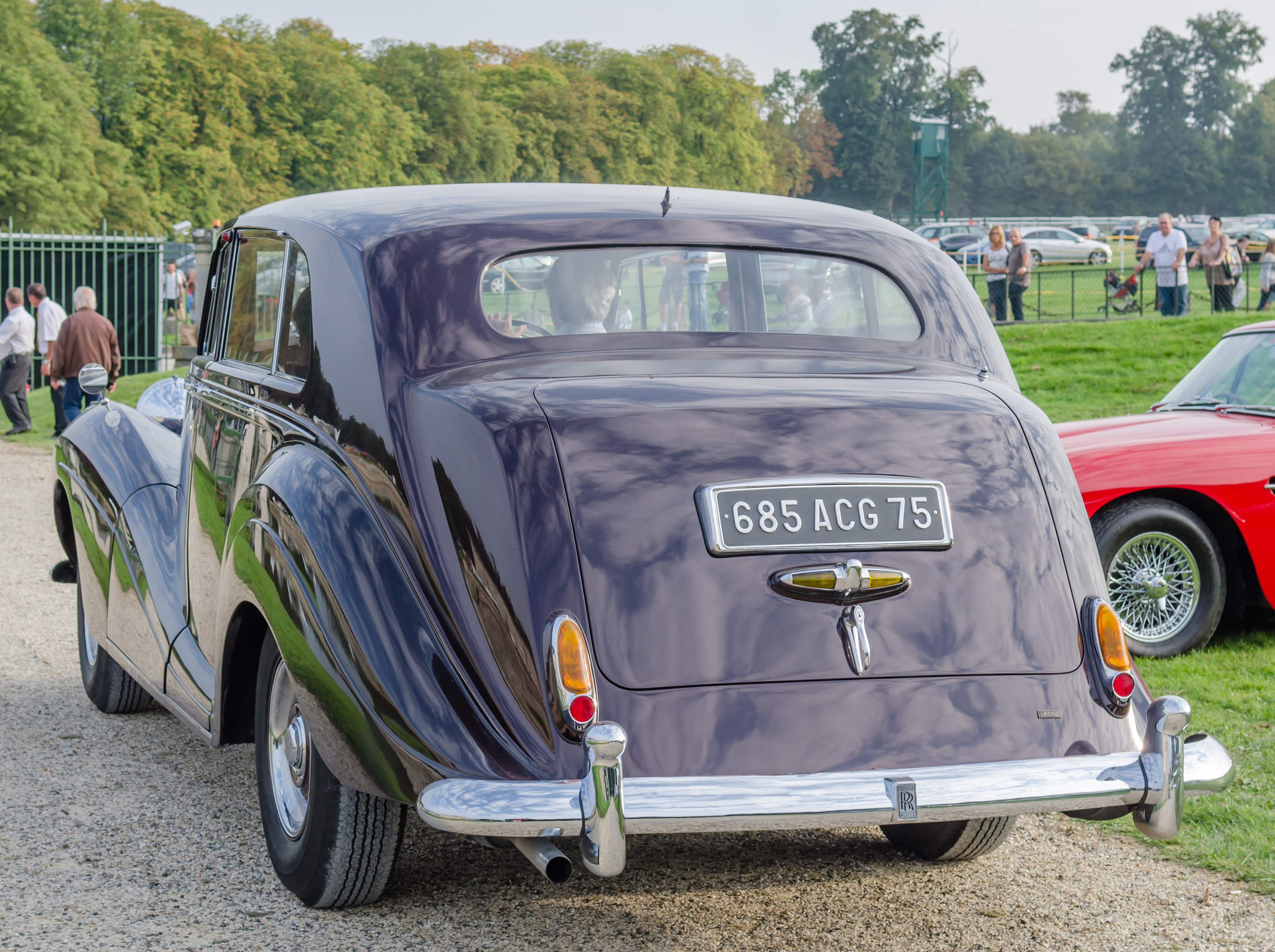 1956 Rolls-Royce Silver Wraith Touring Limousine (H.J. Mulliner) Chantilly, Picardie, France